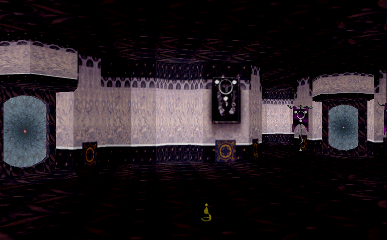 A room in a starting area of Underlight, showing two portals to other rooms and a Codex on the floor.